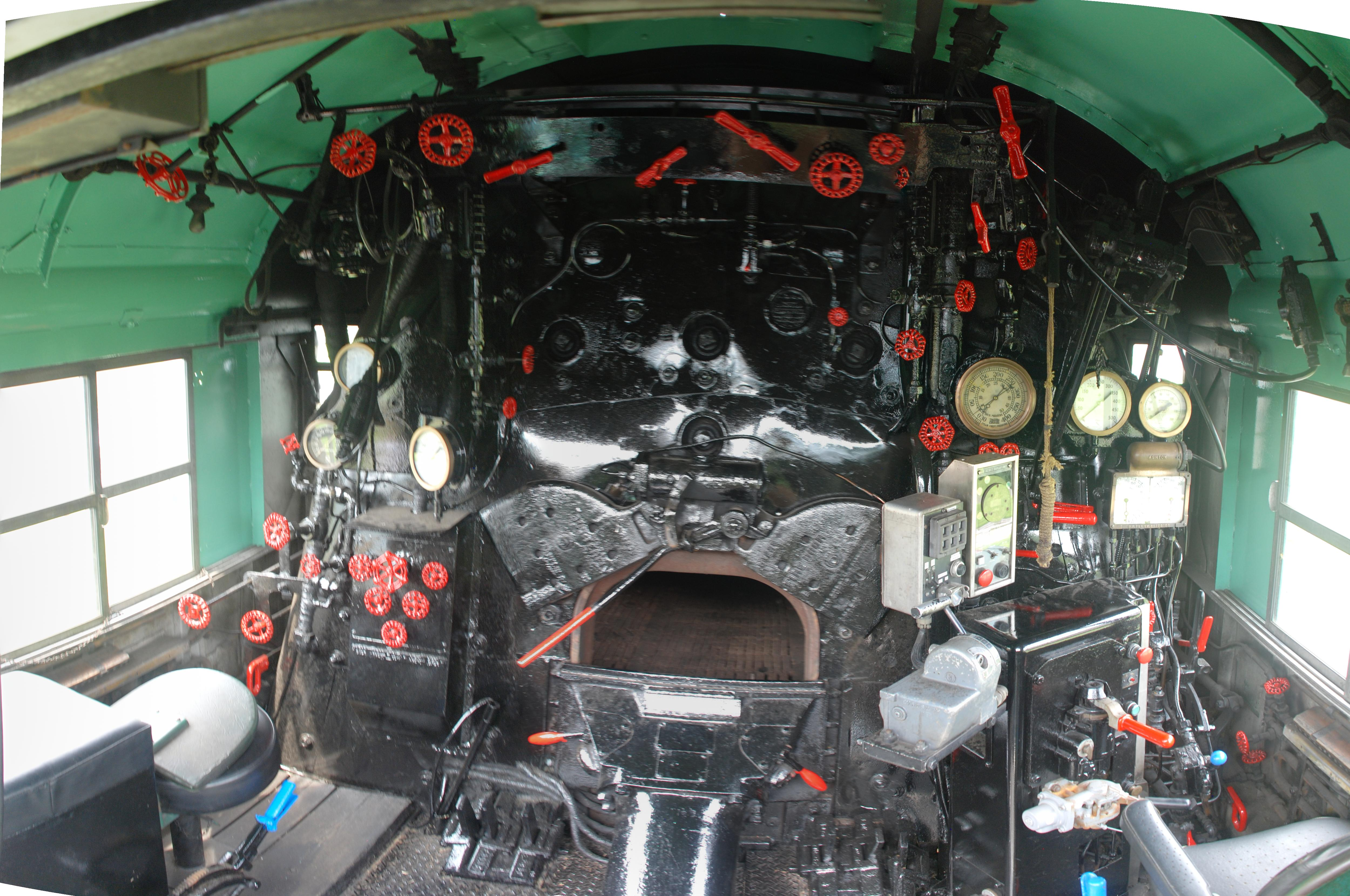 Chesapeake & Ohio 614 4-8-4 steam locomotive at C&O Railway Heritage Center in Clifton Forge, Virginia. Engine room.